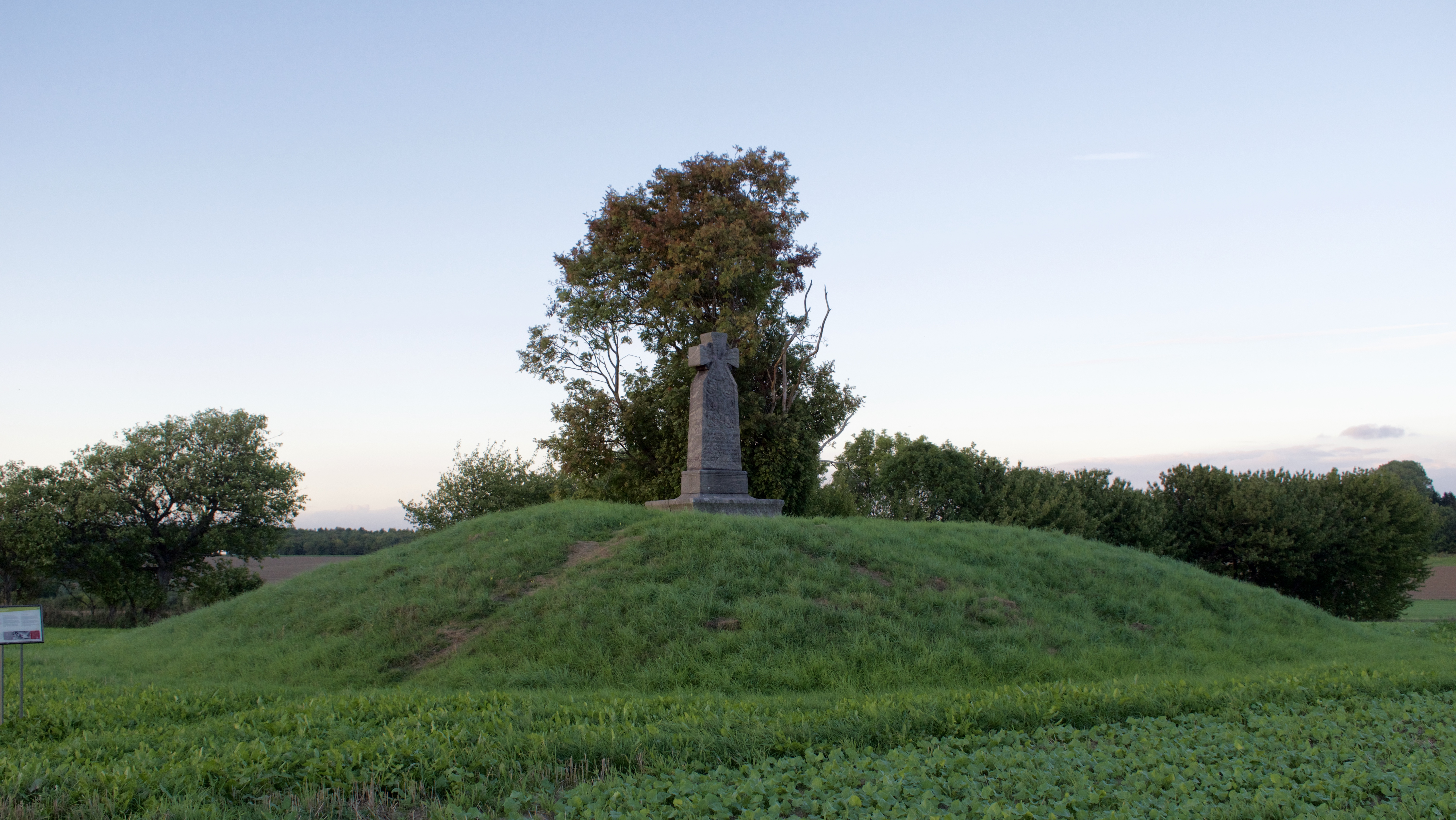 Snubbekors Høj in Tåstrup, Denmark